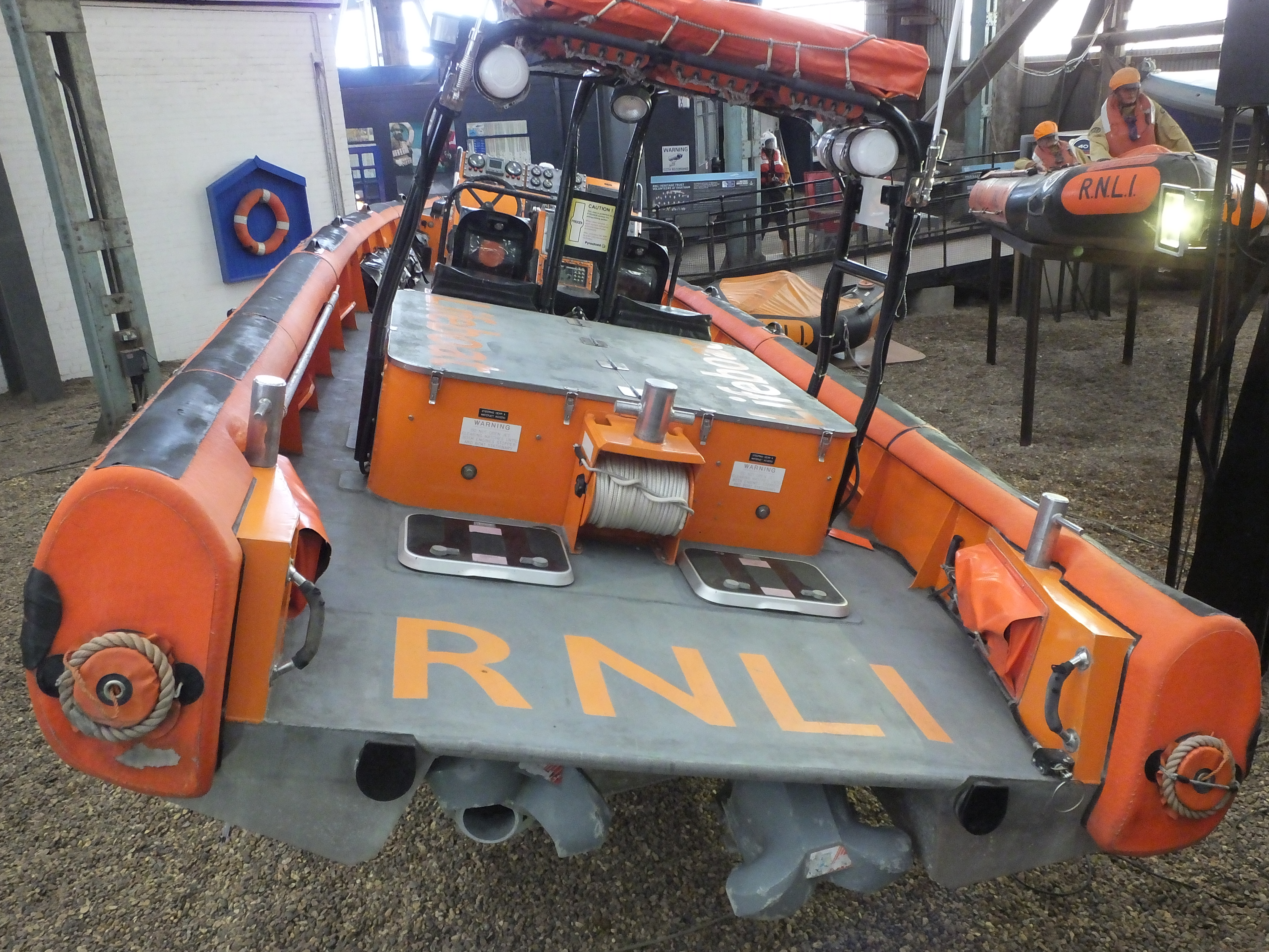 The RNLI Historic Lifeboat Collection at the Historic Dockyard in Chatham, Kent, is the UK’s largest collection of historic lifeboats. [ RNLI Historic Lifeboats in Chatham E class ILB Olive Laura Deare